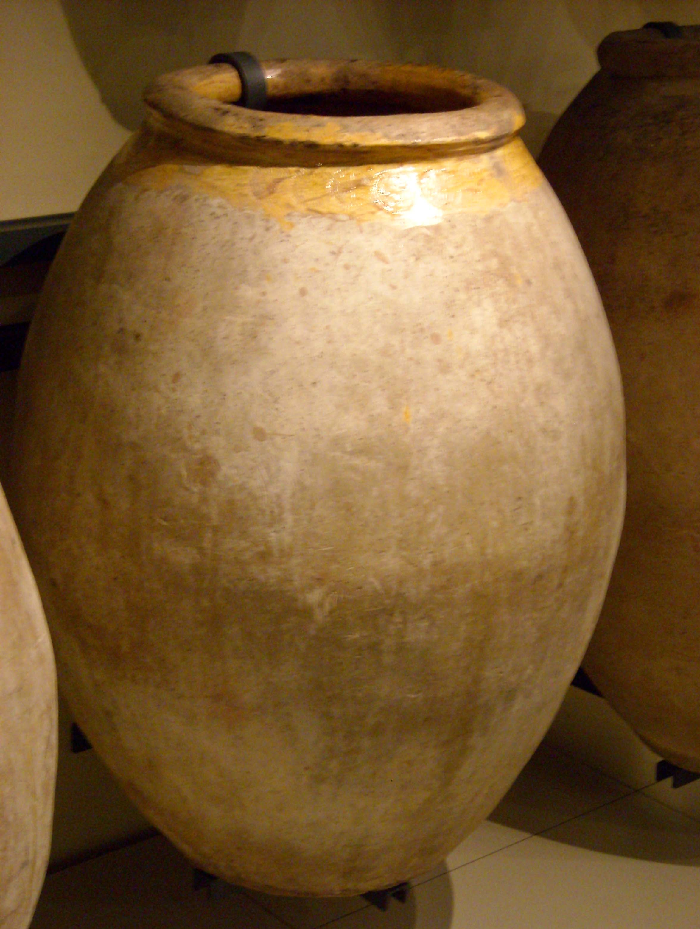 Jar used in past to store olive oil in the province of Imperia in the region of Liguria, Italy.